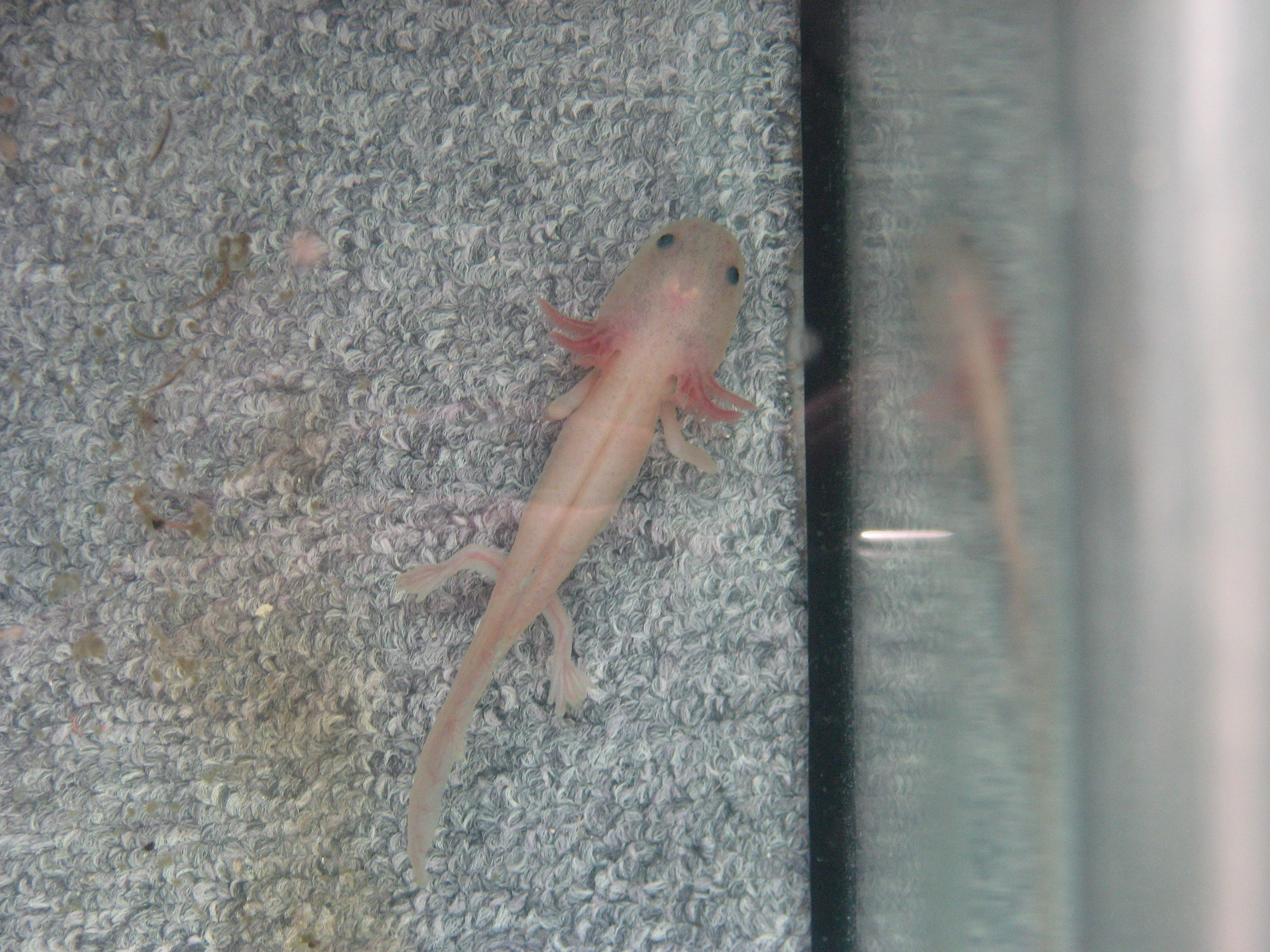 An axolotl in a quarantine aquarium, after an attack from another axolotl. The picture shows that its front legs were bitten off and are beggining to grow again.